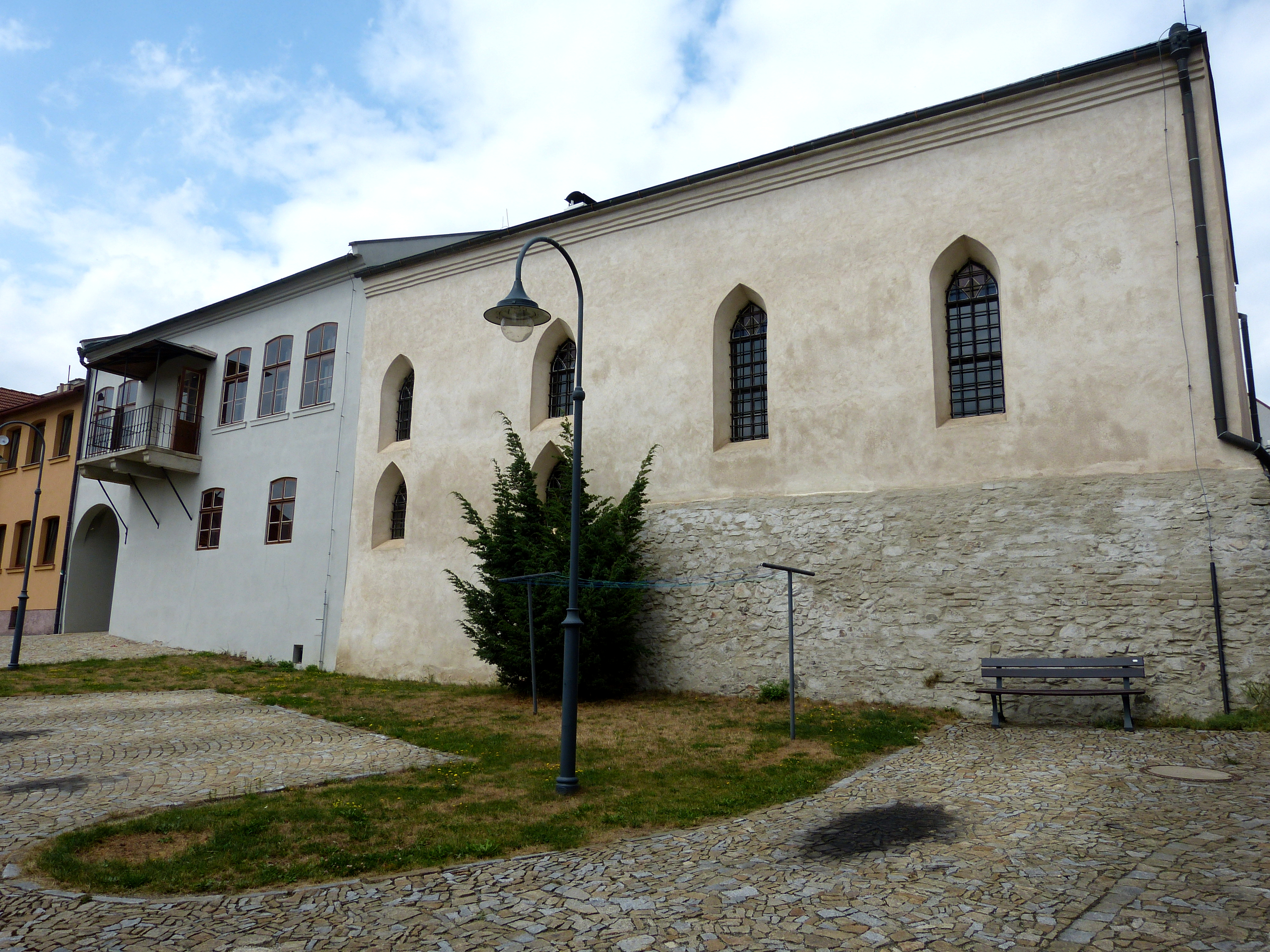 Polna ( Czech Republic ). Jewish Quarter: Rabbi's house and synagogue